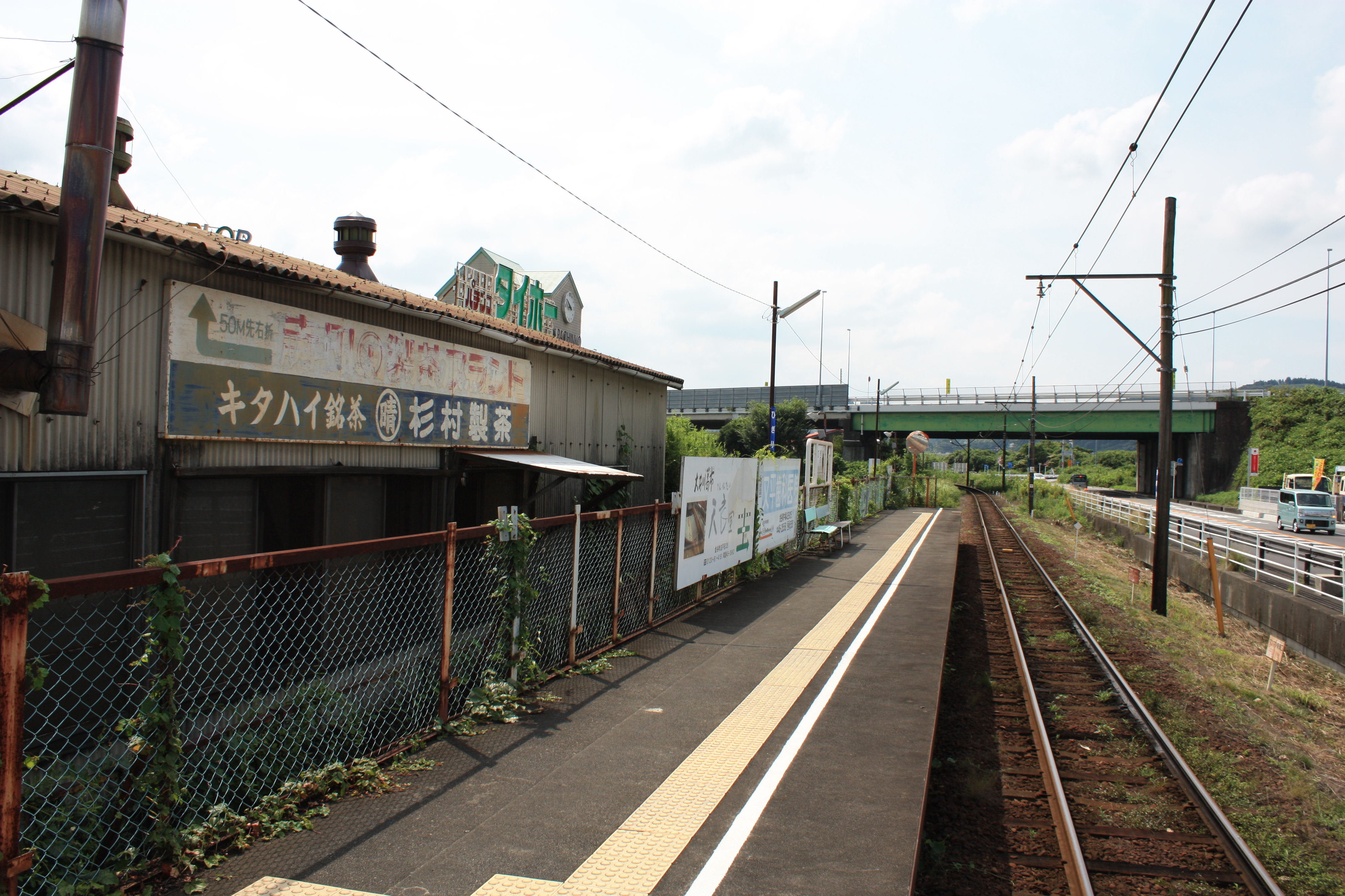 The platform at Higiri Station